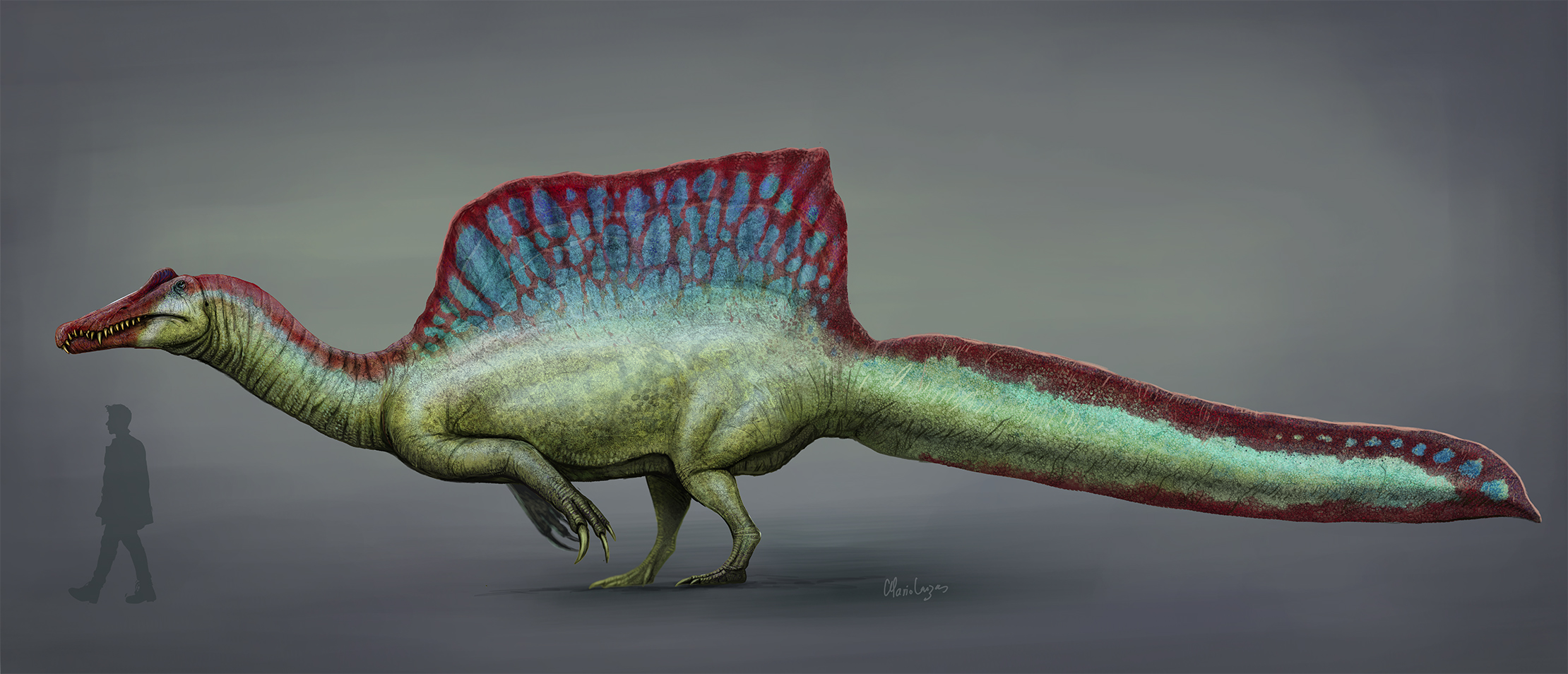 Spinosaurus 2020 reconstruction